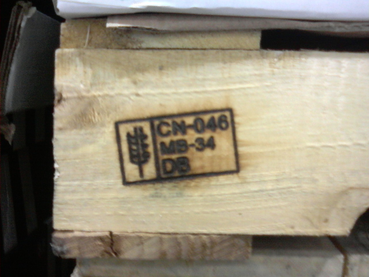 IPPC markings on a pallet from China (CN) that has been treated using methyl bromide (MB). Pallets treated wtih methyl bromide are banned in Europe. This was taken at a Costco in Canada.